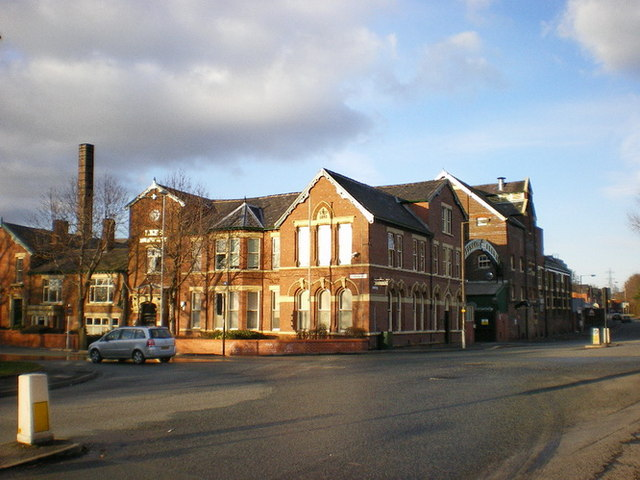 Greengates Brewery (J W Lees) Started in 1828 by retired cotton manufacturer John William Lees